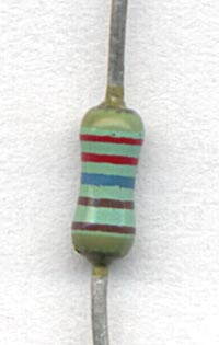 2.26 kilo-ohm precision resistor. Color code: red-red-blue-brown-brown, last brown band indicating a 1% tolerance.